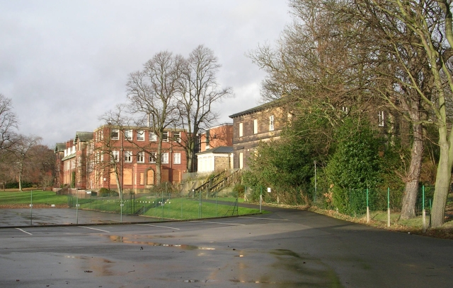 Leeds Girls' High School Premises - Victoria Road These particular buildings are no longer in use. The school has merged with Leeds GS, to form the Grammar School at Leeds, in Alwoodley.